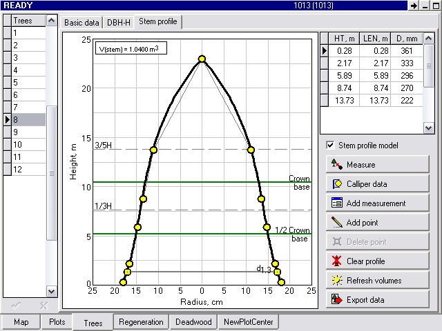 stem profile measured by Field-Map [2].